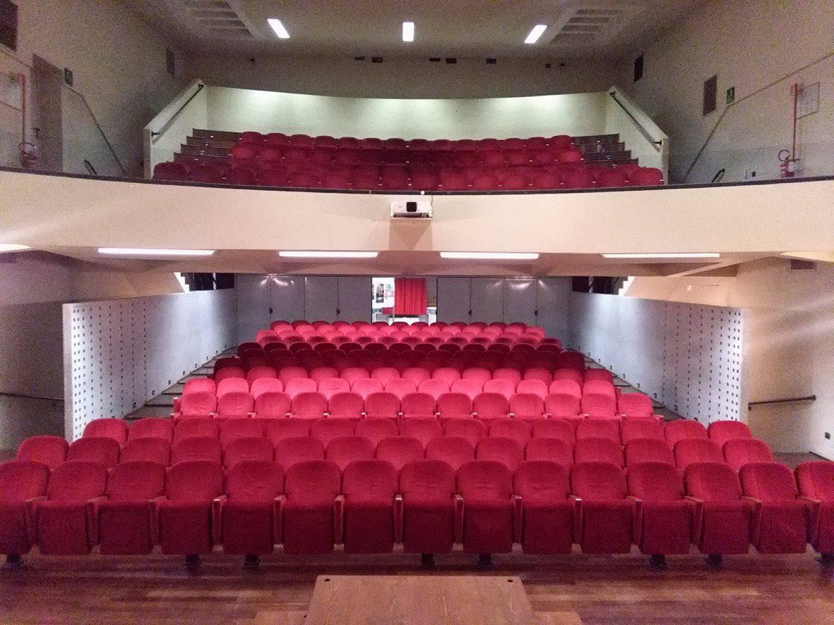 Palazzo Terragni, teatro